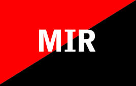 Flag of the Revolutionary Left Movement from Peru